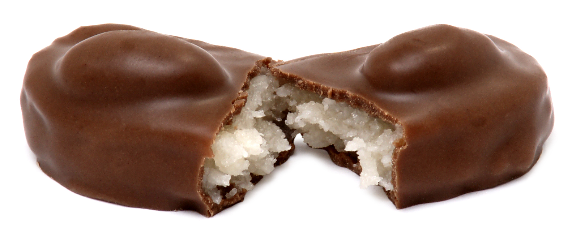 An Almond Joy bar, broken in half.